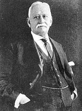 Minor Cooper Keith, (January 19, 1848; June 14, 1929), american bussines-man, railroad, fruit (bananas), and shipping magnate whose business activities had a profound impact in Central America and Colombia in XIX Century.